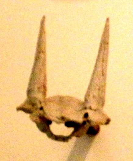 Skull of Eotragus sansaniensis, an extinct bovid, in the "American Museum of Natural History" in New York